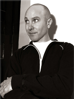 Artist Charles Wish